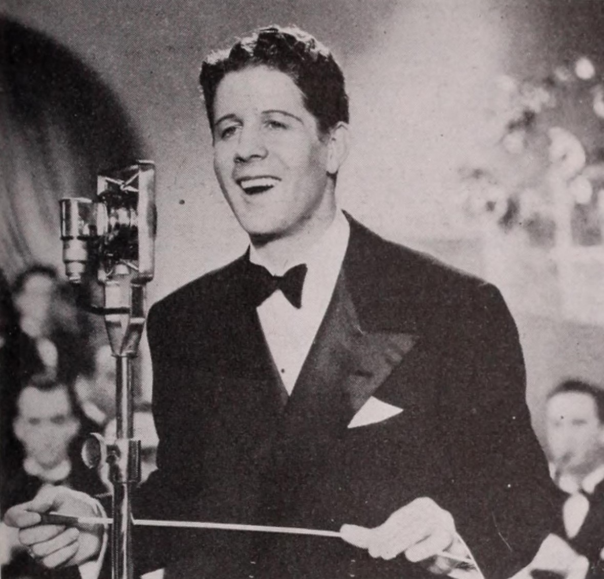 Radio Stars, August 1935